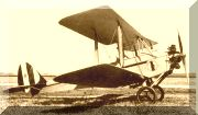 Italian Caproni Ca.100 trainer aircraft